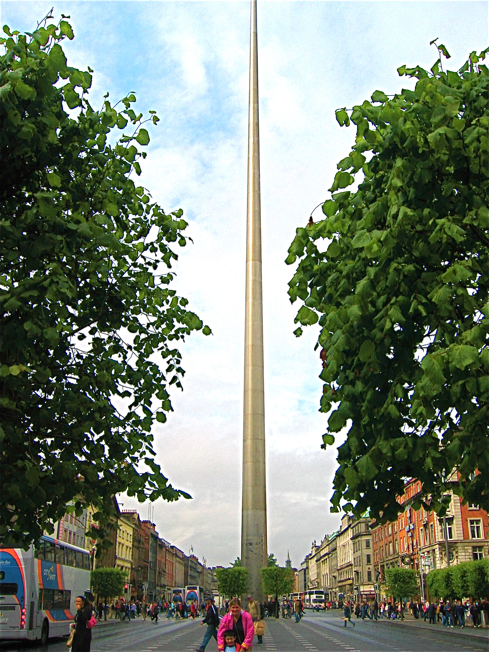 The Spire Dublin (Dublin Spike)